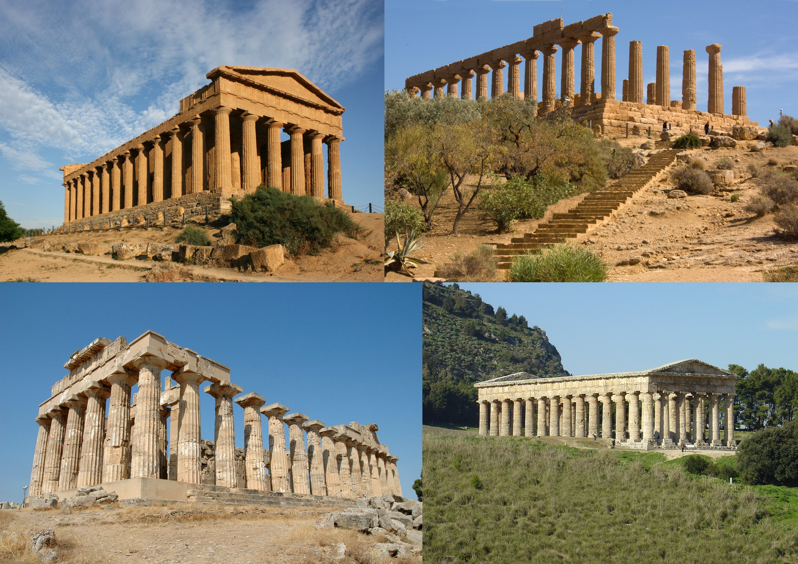 Agrigento (Sicily, Italy). Temple of Concordia. *